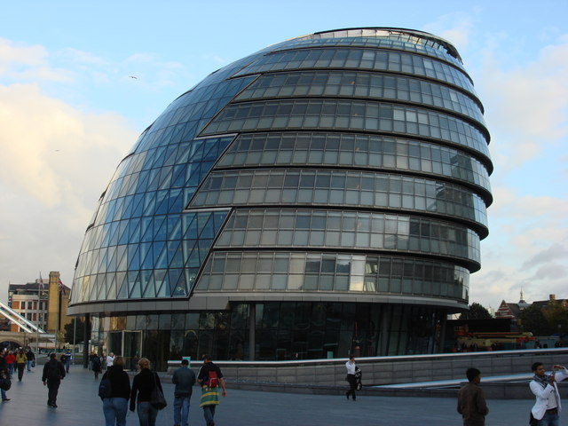 City Hall, London City Hall in London is the headquarters of the Greater London Authority and the Mayor of London. It stands on the south bank of the River Thames, by Tower Bridge. Designed by Norman Foster, it opened in July 2002.